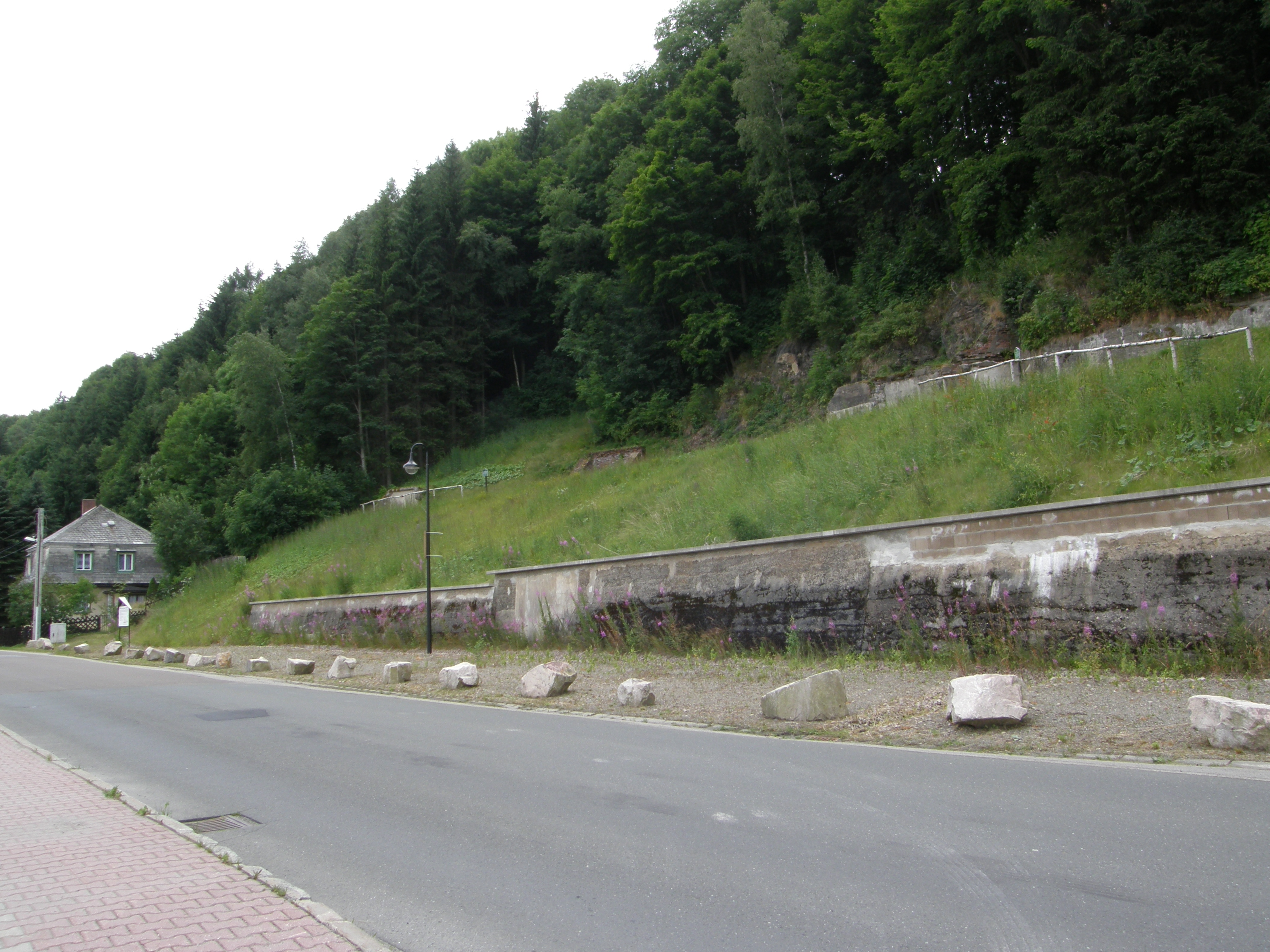 Remnants of ore bunker 18 of the former SAG/SDAG Wismut in Johanngeorgenstadt, Erzgebirge, Germany: The house in the back of the image is close to the former Georg Wagsforth mine, from which the speciman of pitchblende was taken in which the uranium was discovered in 1789